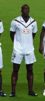 Souleymane Diawara